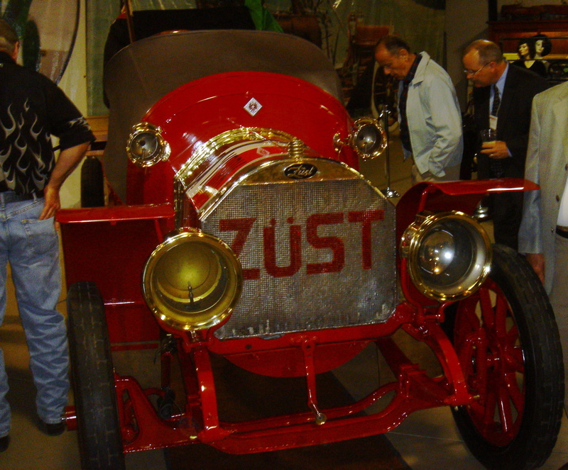 A picture I took of the Züst race car which placed 3rd in the 1908 race around the world.